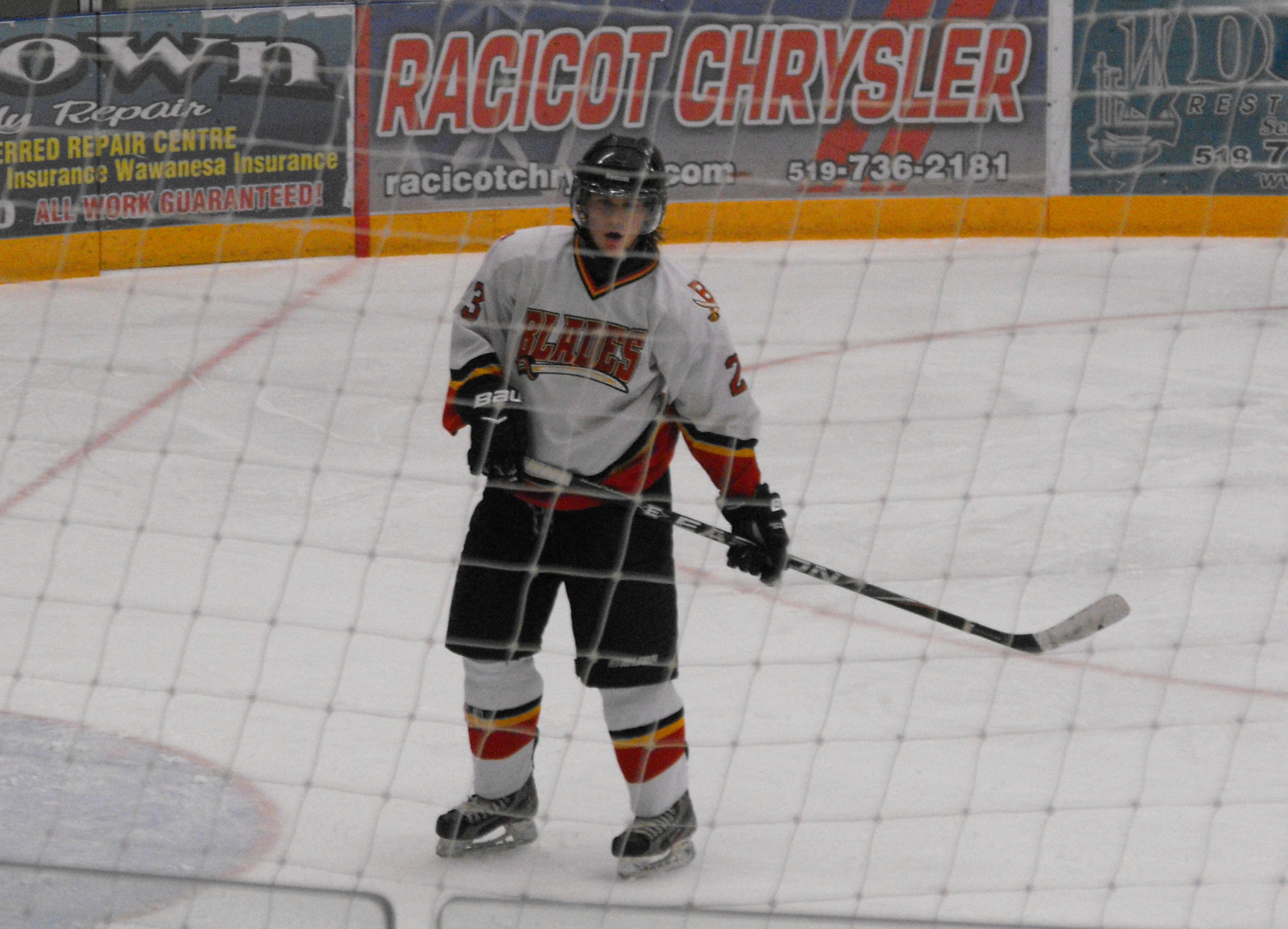 Blenheim Blades player 2013-14 season in Amherstburg, ON